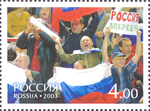 Russia stamp no. 829 commemorating the 2002 Davis Cup.